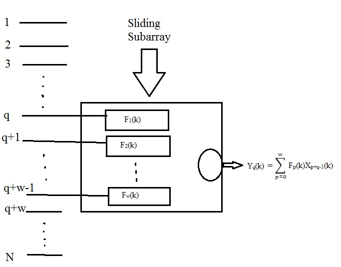 subarray